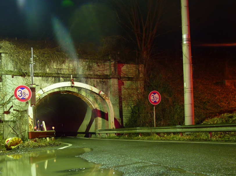 Momose River Tunnel (Takashima City, Shiga, Japan)